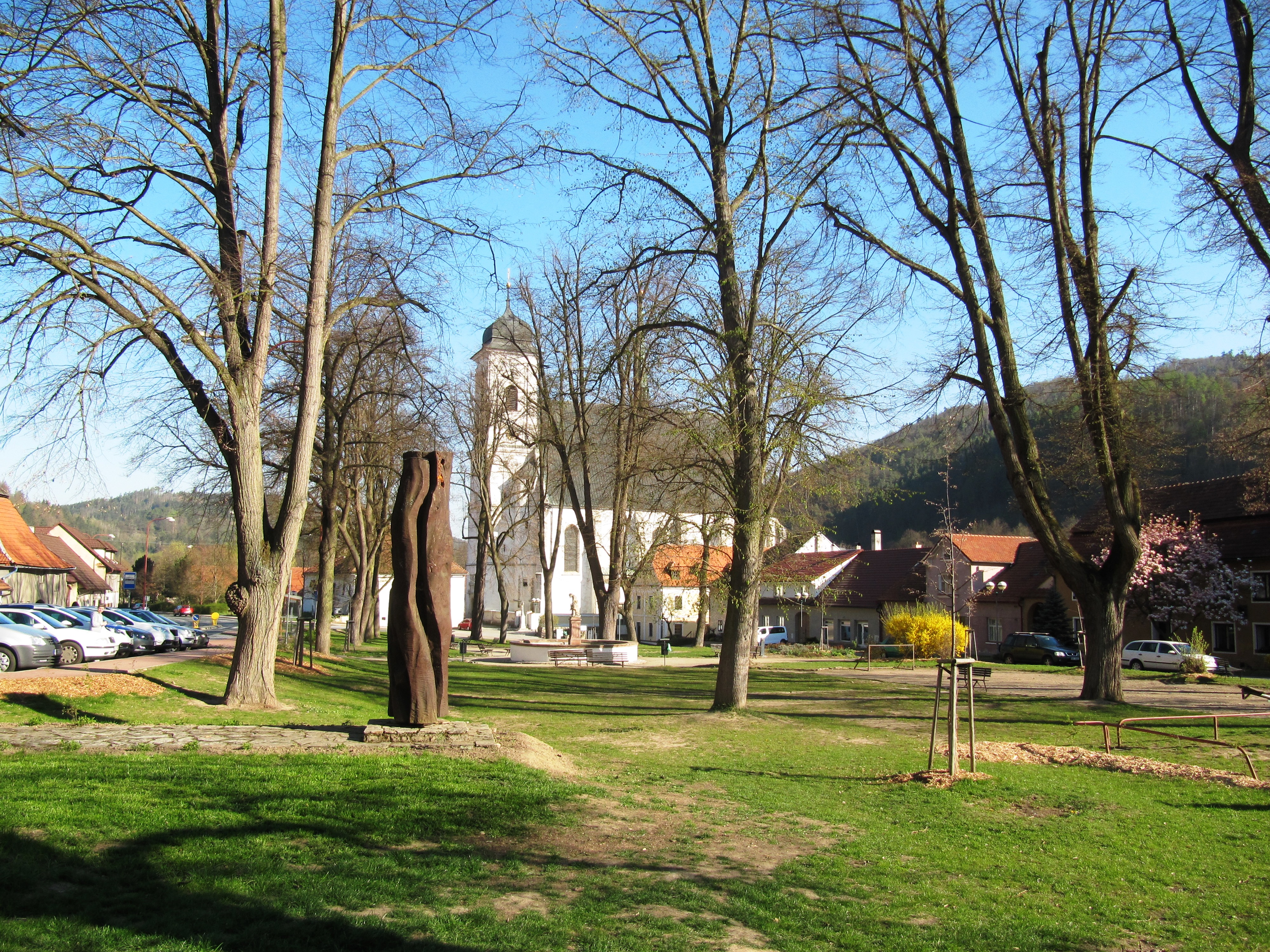 Doubravník, Brno-Country District, Czechia.